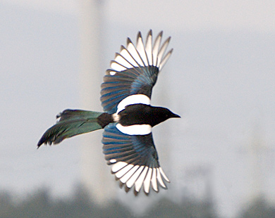 Magpie (Pica pica) in flight